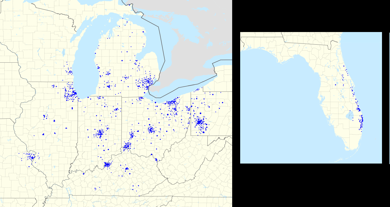 Footprint of National City Corp. branches within the United States prior to merger with PNC (June 30, 2009). Zip codes with more than one branch have progressively larger points.